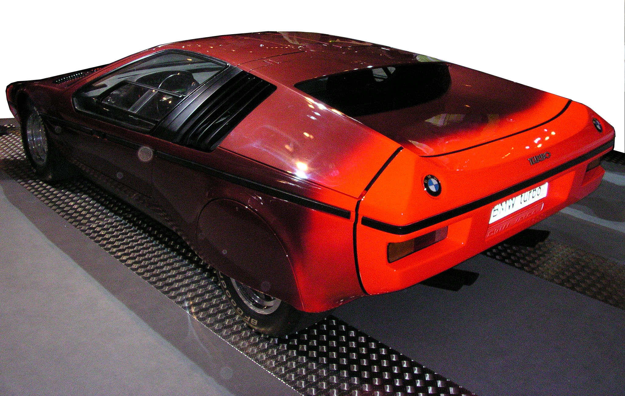 Essen Techno-Classica 2007, BMW Turbo, build 1972